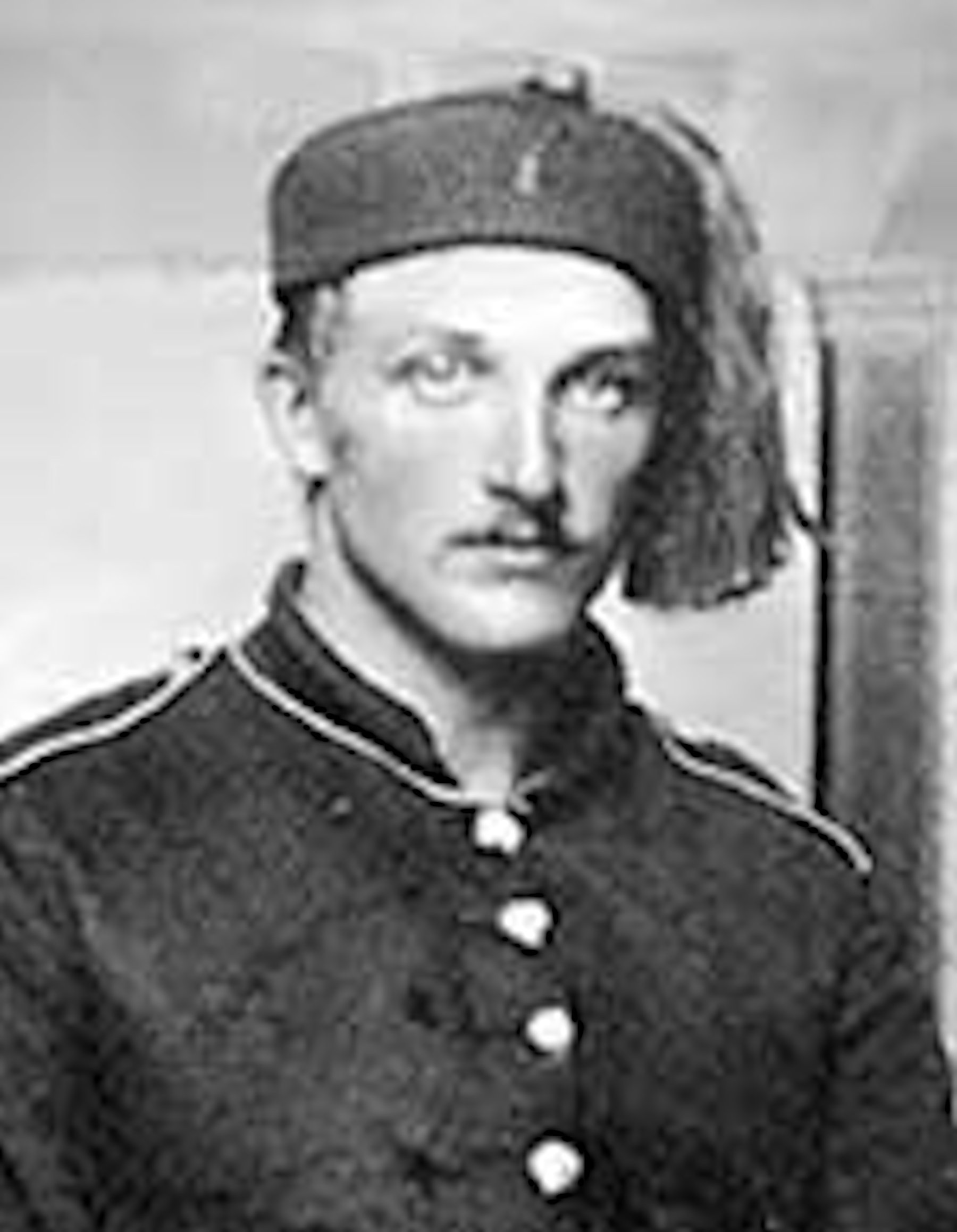 Medal of Honor winner